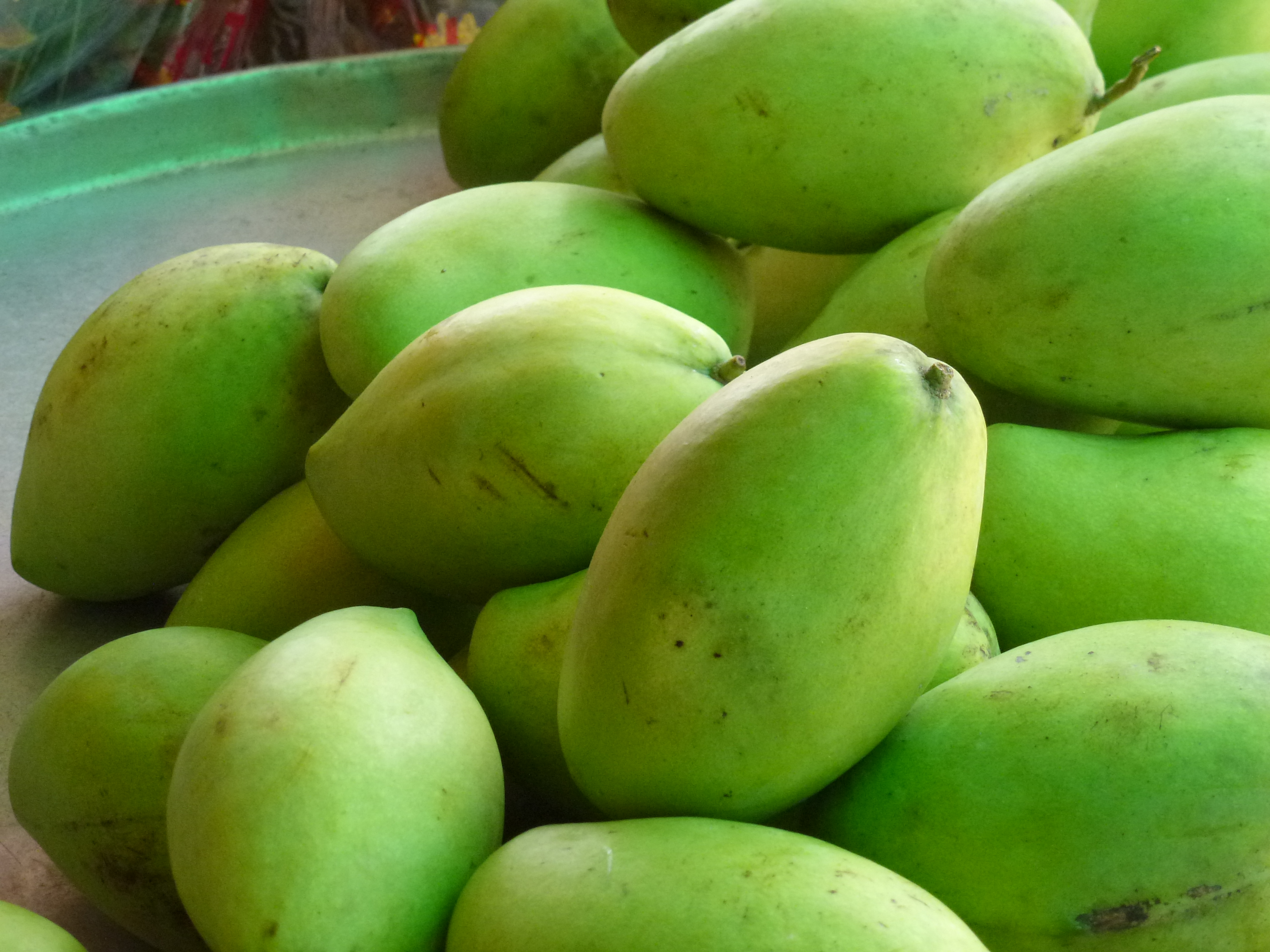 Hoa Loc Mango in Xuan Khanh market, Can Tho city, VietnamTiếng Việt: Xoài cát Hòa Lộc tại chợ Xuân Khánh, Cần Thơ, Việt Nam